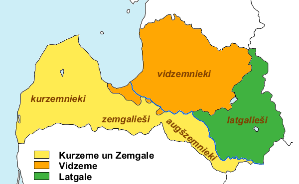 Map of historical regions of Latvia, together are shown ethnographic groups of latvians.